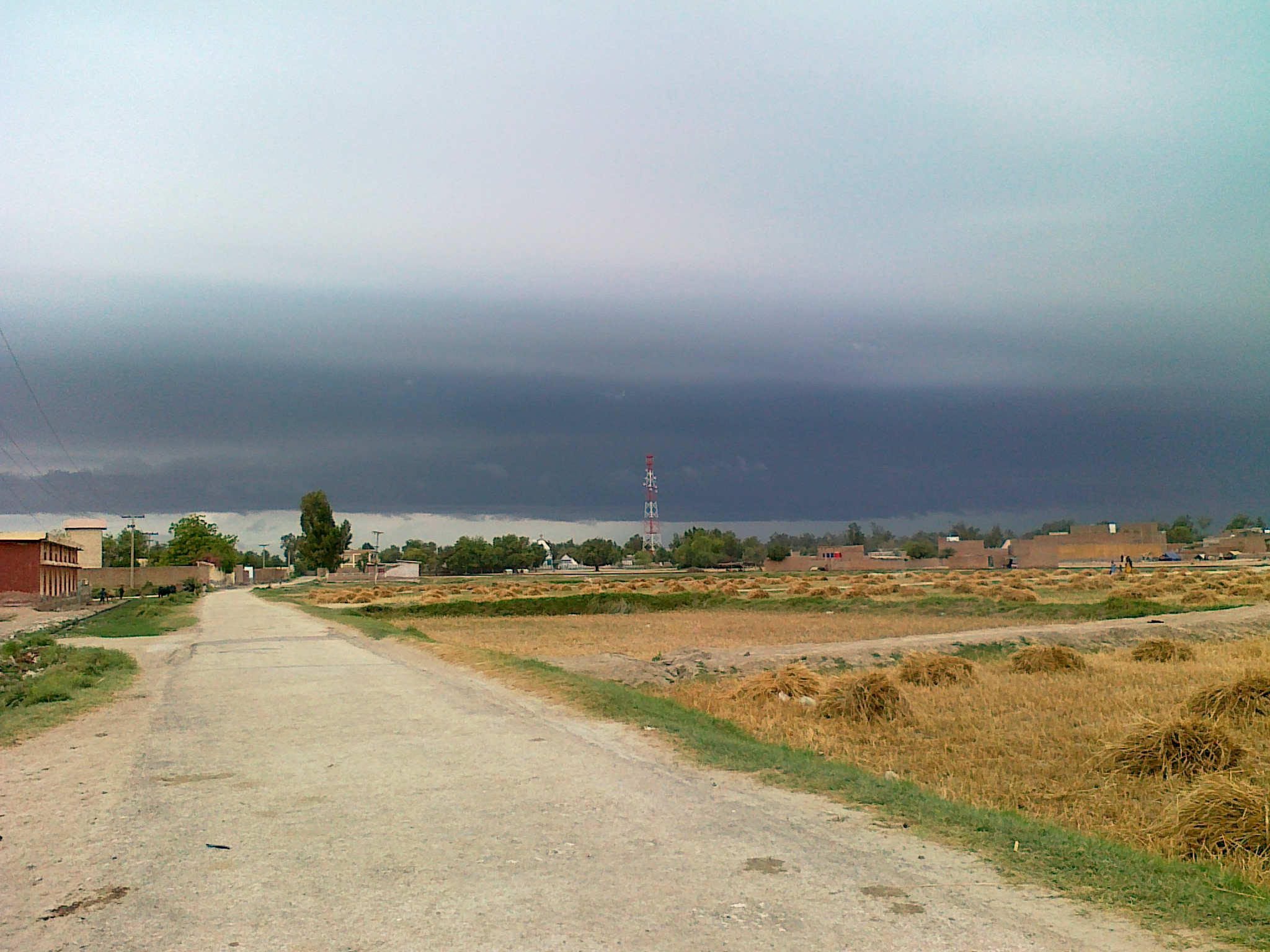 A view of village Wango, near city Mirpur Mathelo, in District Ghotki, Sindh